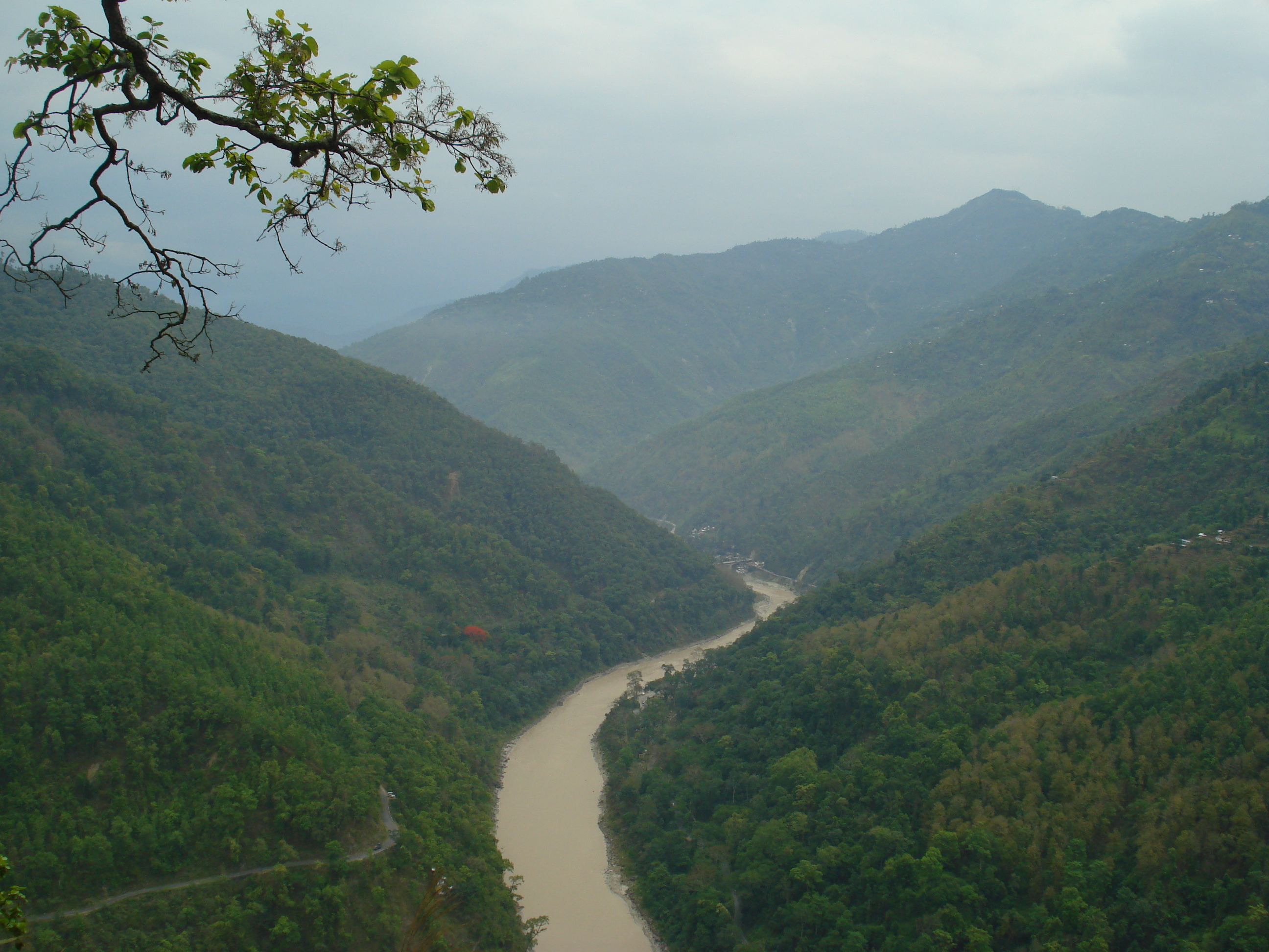 This is the merging of three rivers, one of which is the lifeline of Sikkhim, known as River Teesta. This particular photo was taken on the way to Gangtok from Darjeeling.